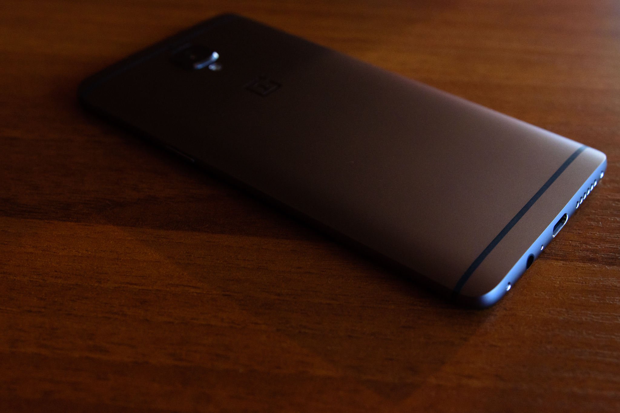 Rear view of OnePlus 3T (”Gunmetal” color).